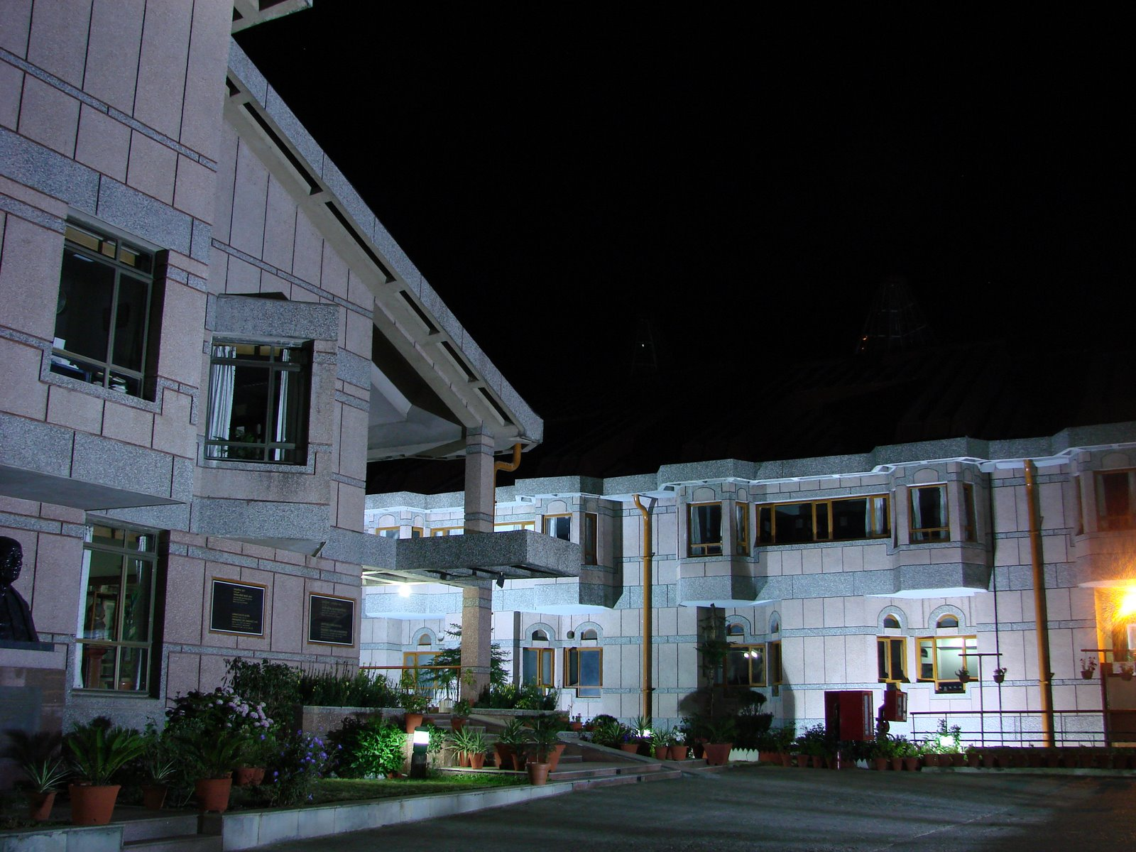 Priyatu Mandal and Tanmay Chakrabarty Taken at night at LBSNAA, Mussoorie in June 2007.